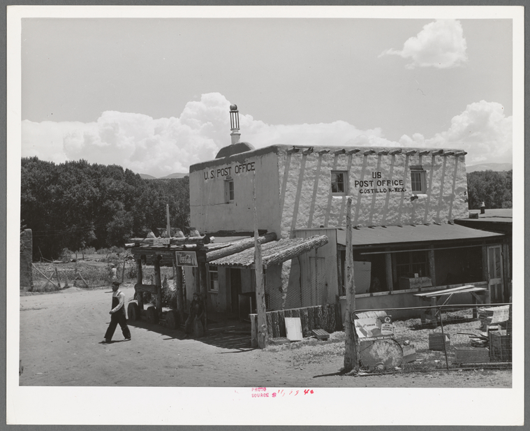 Post office. Costilla, New Mexico taken in 1940 by FSA photographer Russell Lee